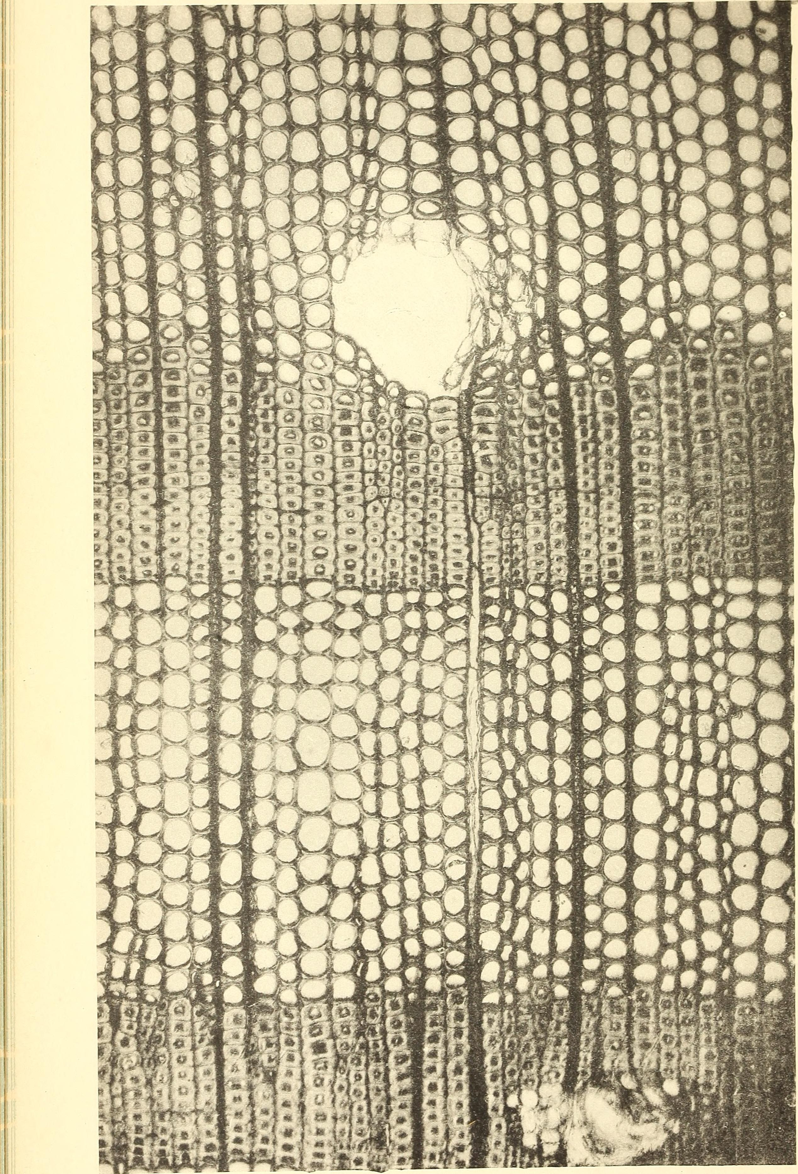 Title: Report on the relation of railroads to forest supplies and forestry : together with appendices on the structure of some timber ties, their behavior, and the cause of their decay in the road bed, on wood preservation, on metal ties, and on the use of spark arresters Year: 1887 (1880s) Authors: Fernow, B. E. (Bernhard Eduard), 1851-1923 Subjects: Forests and forestry Wood Preservation Railroads Ties Publisher: Washington, D.C. : Dept. of Agriculture, Forestry Division Text Appearing Before Image: Report of Forestry Division, Department of Agriculture. Text Appearing After Image: Photomicrograph by P. H. Dudley. Bell Bros., Washington, D. C. 380. Pinus Palustris, Miller ; Long leaf Pine. Transverse Section x 100 Diameters. 45 Long leaved k Xellow Pine, Pinuspalustris, Mill. No. 3S0. The striking appearance of the structure of (Ins wood, as seen in thetransverse section, consists in the si rongly marked zones of differenl cellsin each layer of growth. At the present time satisfactory distinctivenames have not been given to these two Glasses of wood-cells or tracheitis.I shall use (he term thin - and t hick-walled tracheids to distinguish them.The former grow in the first part of the season, and the latter during thesummer; but the line of demarkation between tliem is sharp, not beinga gradual mergiug as in most of the other Conifers. In some trees, eachlayer is made up of about equal portions of the thin- and thick-walled tra-cheids, though these layers may vary in thickness from one-thirty-secondto one-fourth of an inch; in other trees, the layer of th